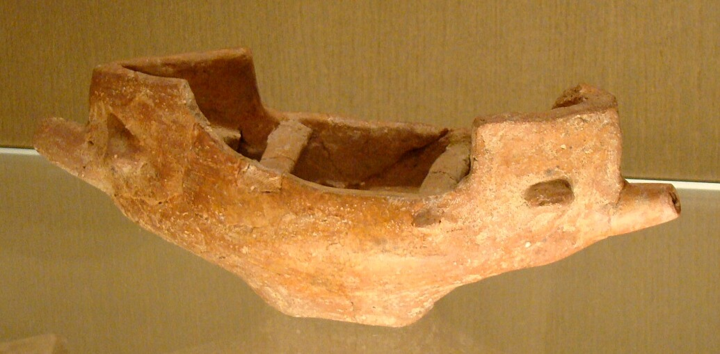 Model of ship founded in Byblos (Phoenicia). Terracota. Beirut National Museum